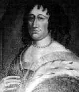 Eleanor of Hesse-Eschwege (1626-1692), sister of King Carl X Gustav of Sweden